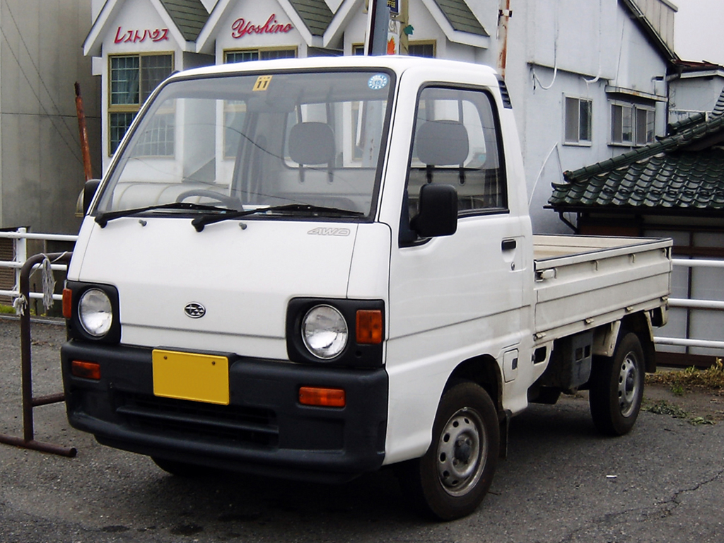 Subaru Sambar Truck 5th Generation (V-KS4)